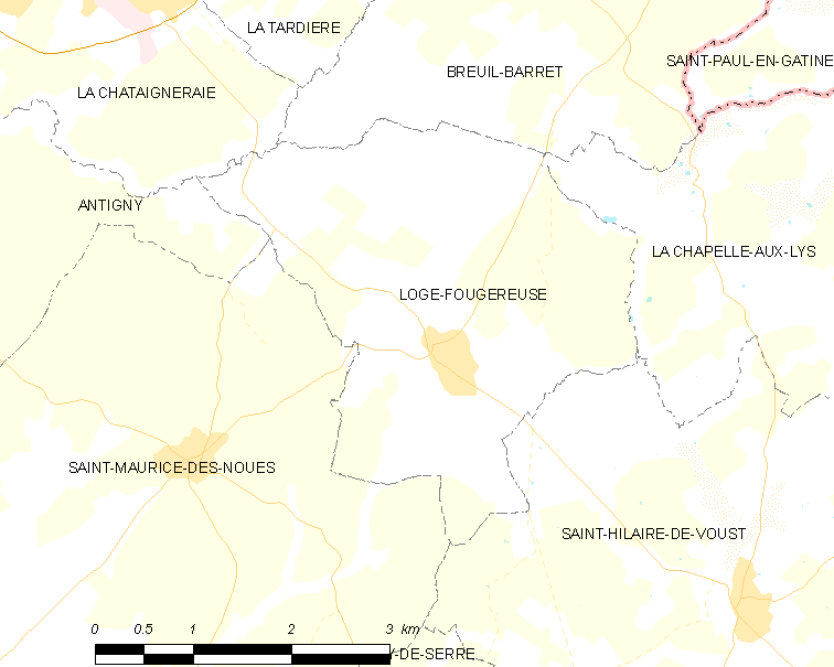 Map of French municipality Loge-Fougereuse